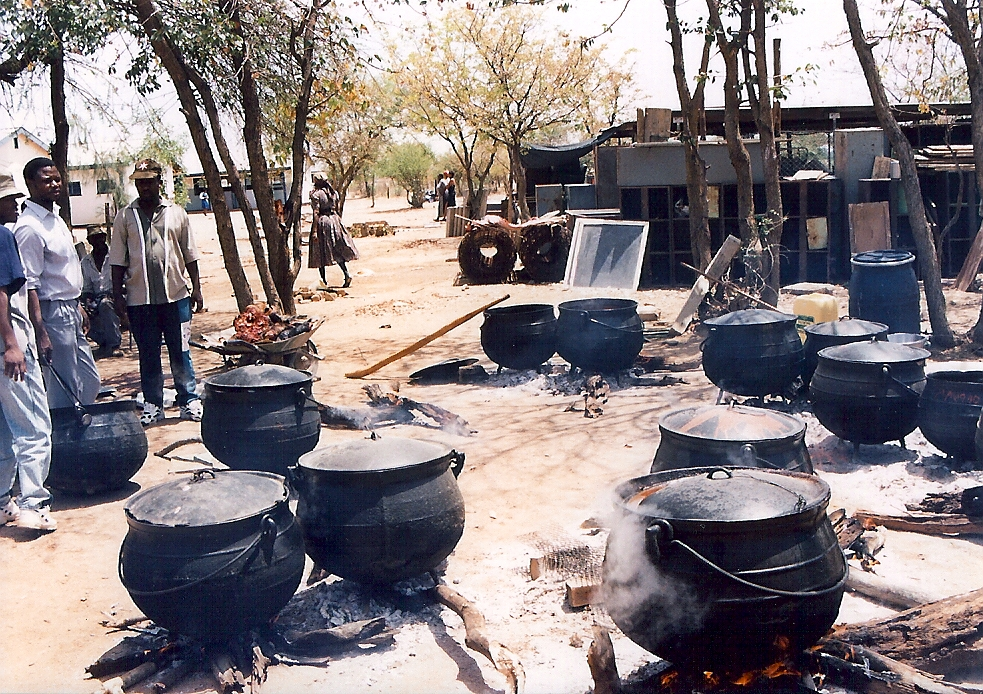 Preparations for matriculation day at Lotsane Senior Secondary School, Palapye, Botswana. Meals are usually prepared in the school kitchens, but for a feast three-legged pots ("falkirks") are pressed into service. In the wheelbarrow is meat from a cow or goat slaughtered earlier in the day. The old lockers in the maintenance store act as a windbreak for the fires. Taken December 1995 on film.